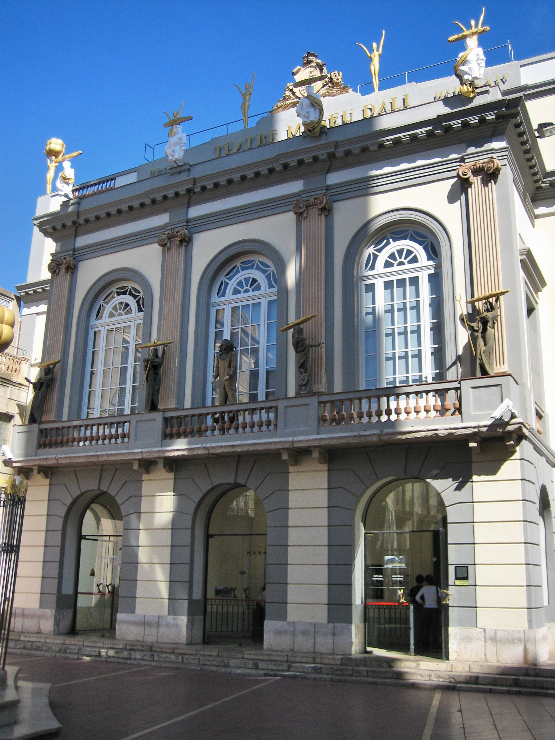 Dalí Theatre and Museum Figueres - Spain Picture taken by Hullie August 2006